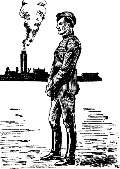 The uniform of a member of the Danish Baltic Auxiliary Corps (1919).